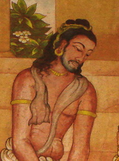 The painting of Anathapindika Location: Srilangka Buddhist temple in Sravasti, India.